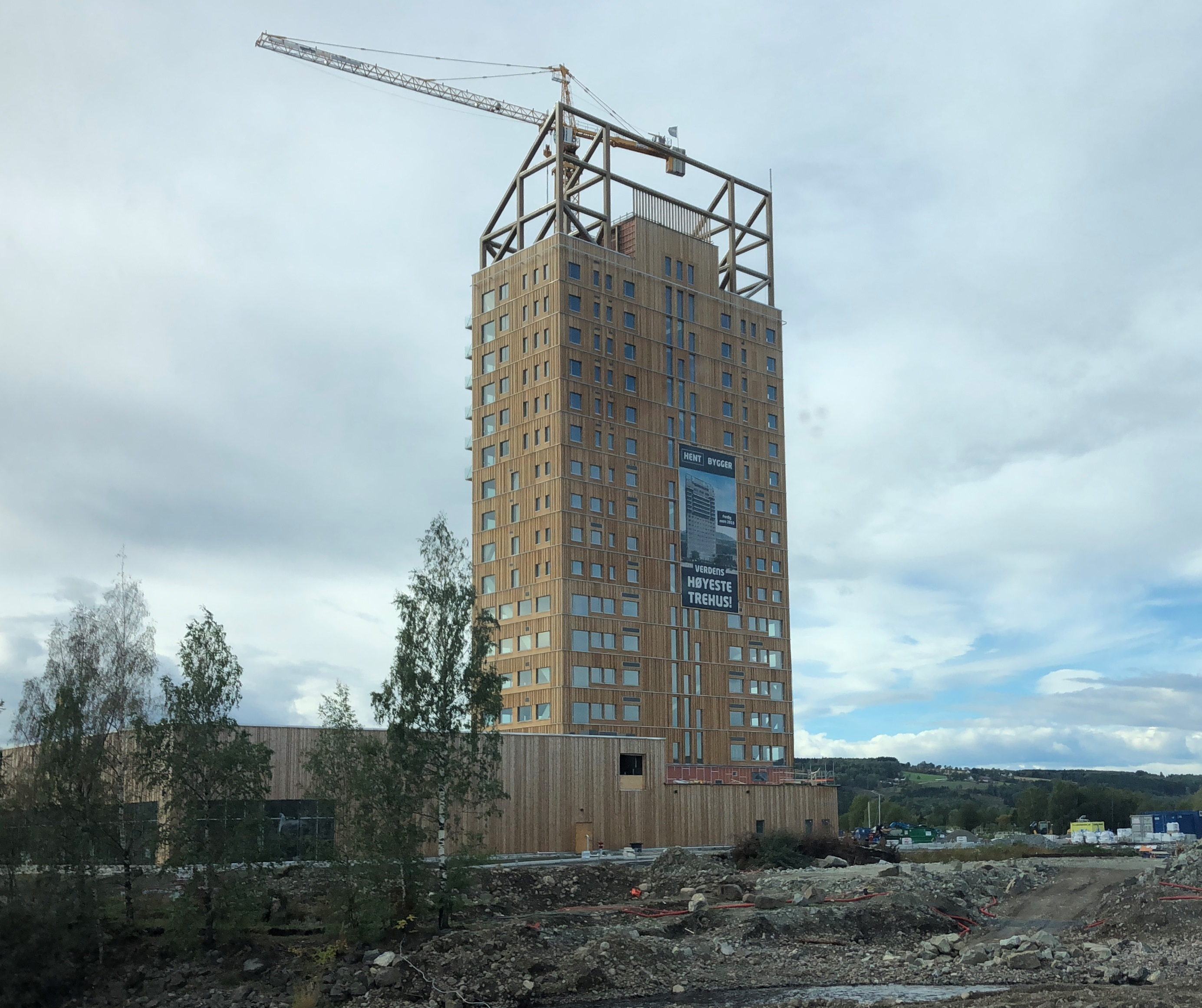 The world's tallest fully wooden highrise under Construction in Brumunddal, Norway.